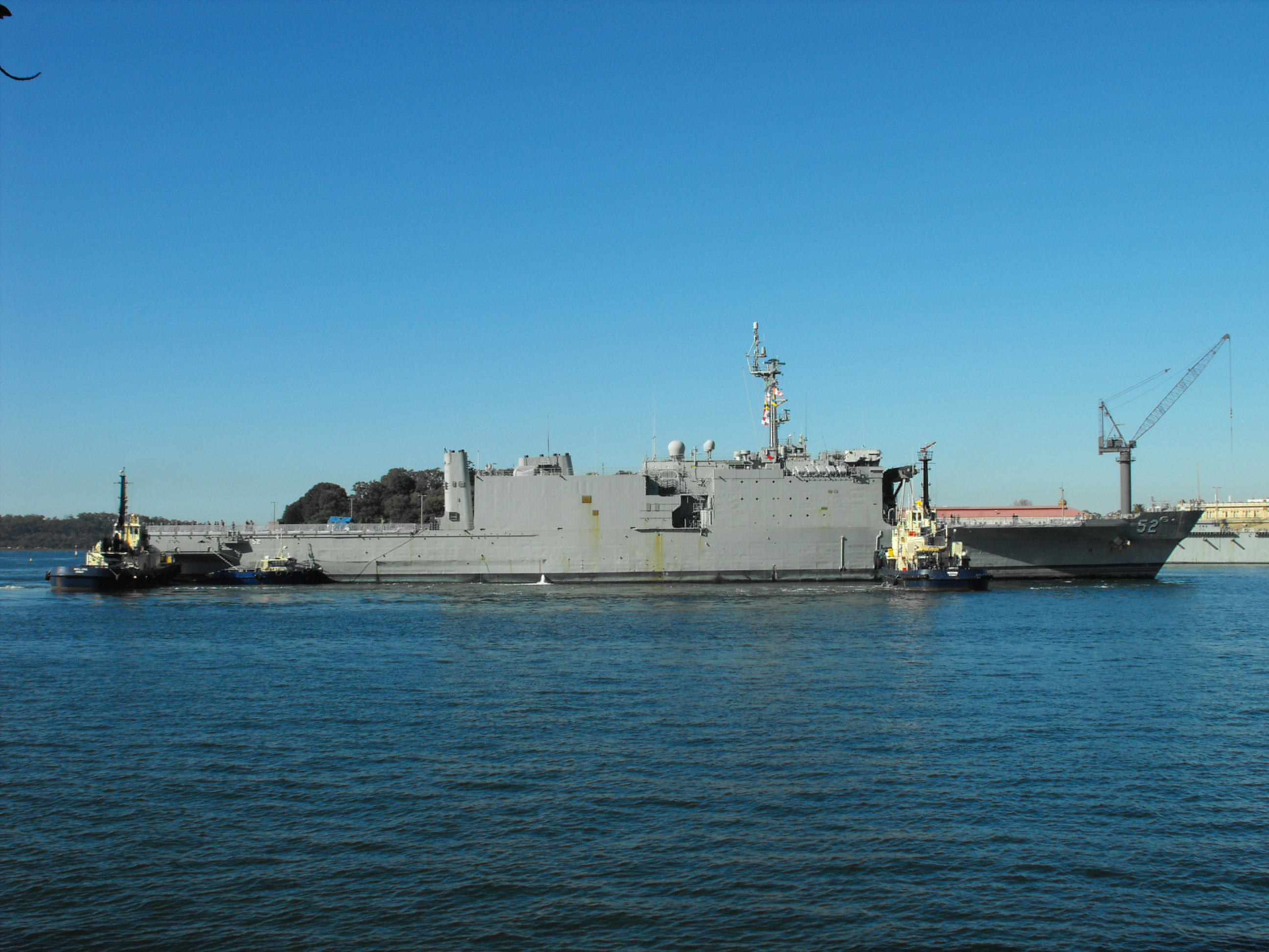 The Kanimbla class amphibious ship HMAS Manoora being manoeuvered around Fleet Base East by tugboats of Defence Maritime Services. Two tugboats and a third, smaller vessel, are helping to move the ship. See also File:Manoora tugboats 1.jpg